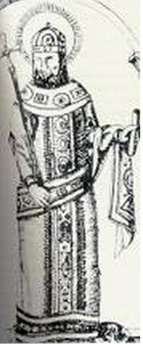 Lithography of Andronikos I Gidos, emperor of Trebizond